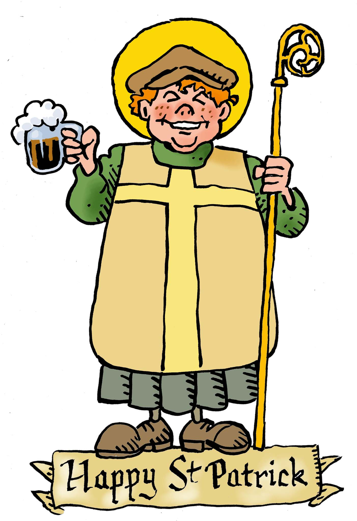 Authentic portrait of St Patrick